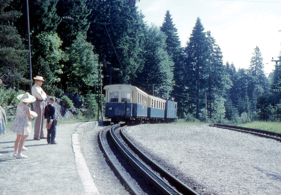 The Zugspitzbahn, at the Eibsee station near the base of the Zugspitze. The train from Garmisch-Partenkirchen is arriving, and will go to the top. It is a rack railway up the mountain, but the first part is a conventional railway . The train has a locomotive, on the "downhill" side. The Zugspitze is Germany's highest mountain. The summit is 2,962 m (9,715 ft) above sea level. The Zugspitzbahn starts at Garmisch-Partenkirchen (708 m / 2,323 ft). I boarded the train at the Eibsee station (1,008 m / 3,306 ft). The end station in 1960, Schneefernerhaus, was 2,650 m (8,692 ft). The Zugspitzbahn climbed 1,642 m (5,386 ft) in 7.9 km (4.9 mules). This is an average grade of 21% The maximum grade is 25%.